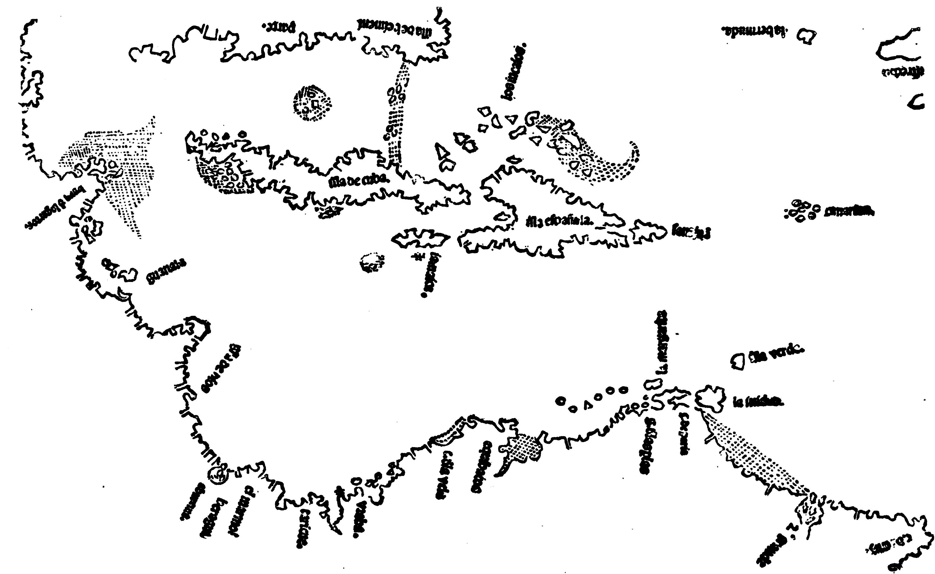 A map of the Caribbean basin, including the islands of Hispaniola, Cuba, Jamaica, with the coast of Florida and Central America. Nautical elements include soundings. This is the first printed map specifically devoted to the Americas and the first mention of Bermuda on a map.